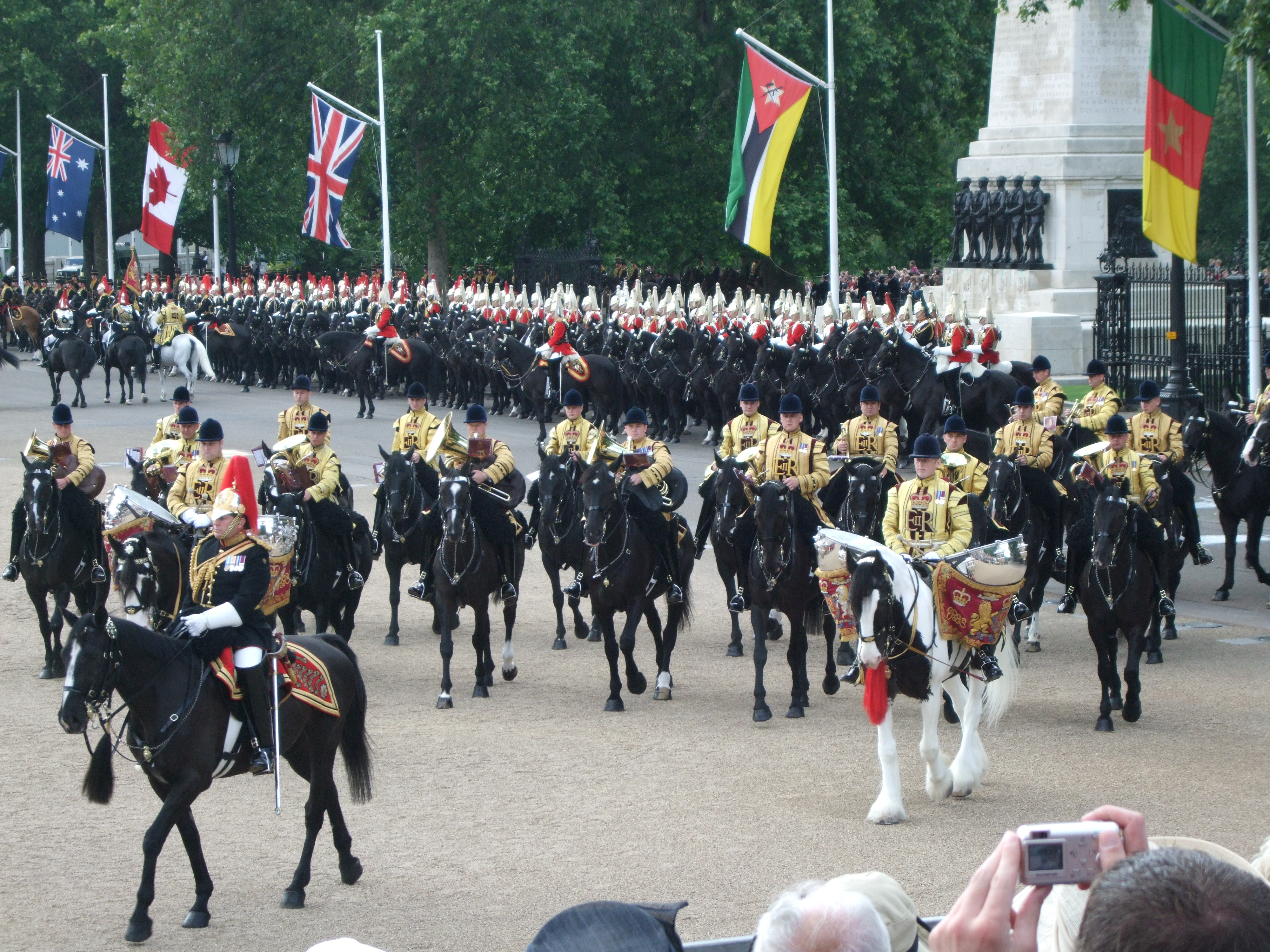 Massed Mounted Bands